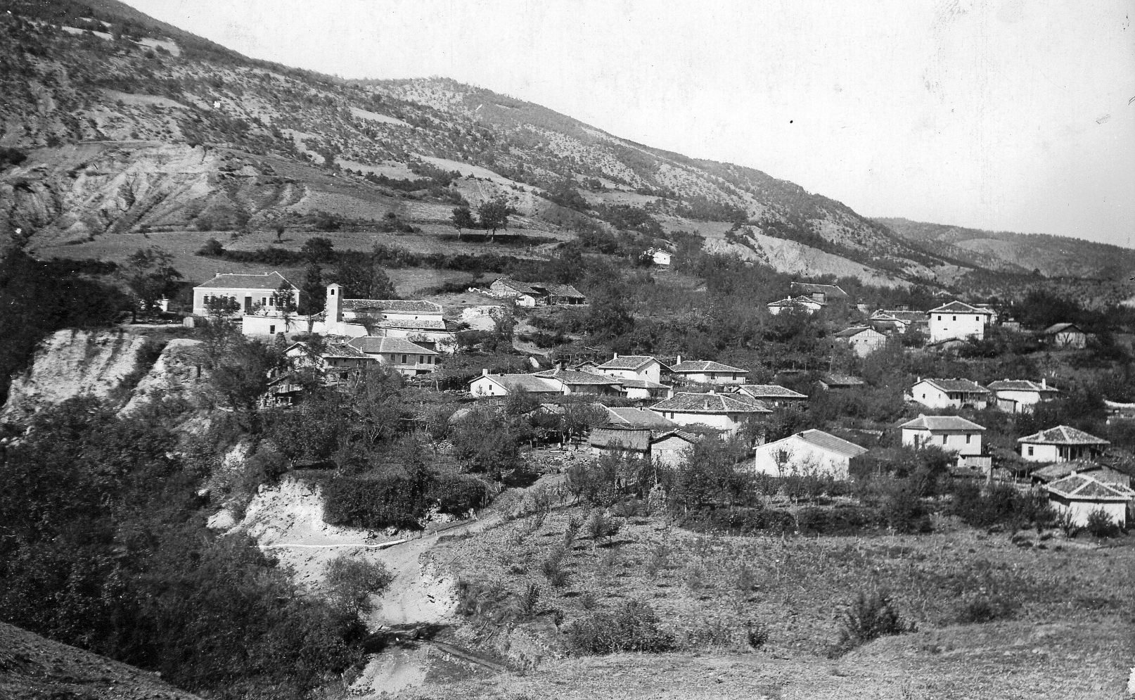 Village Sermenin (Gevgelija Municipality), 1931 This media file is produced by Wikipedian in Residence in Category:Wikipedian in Residence at DARM in 2016.